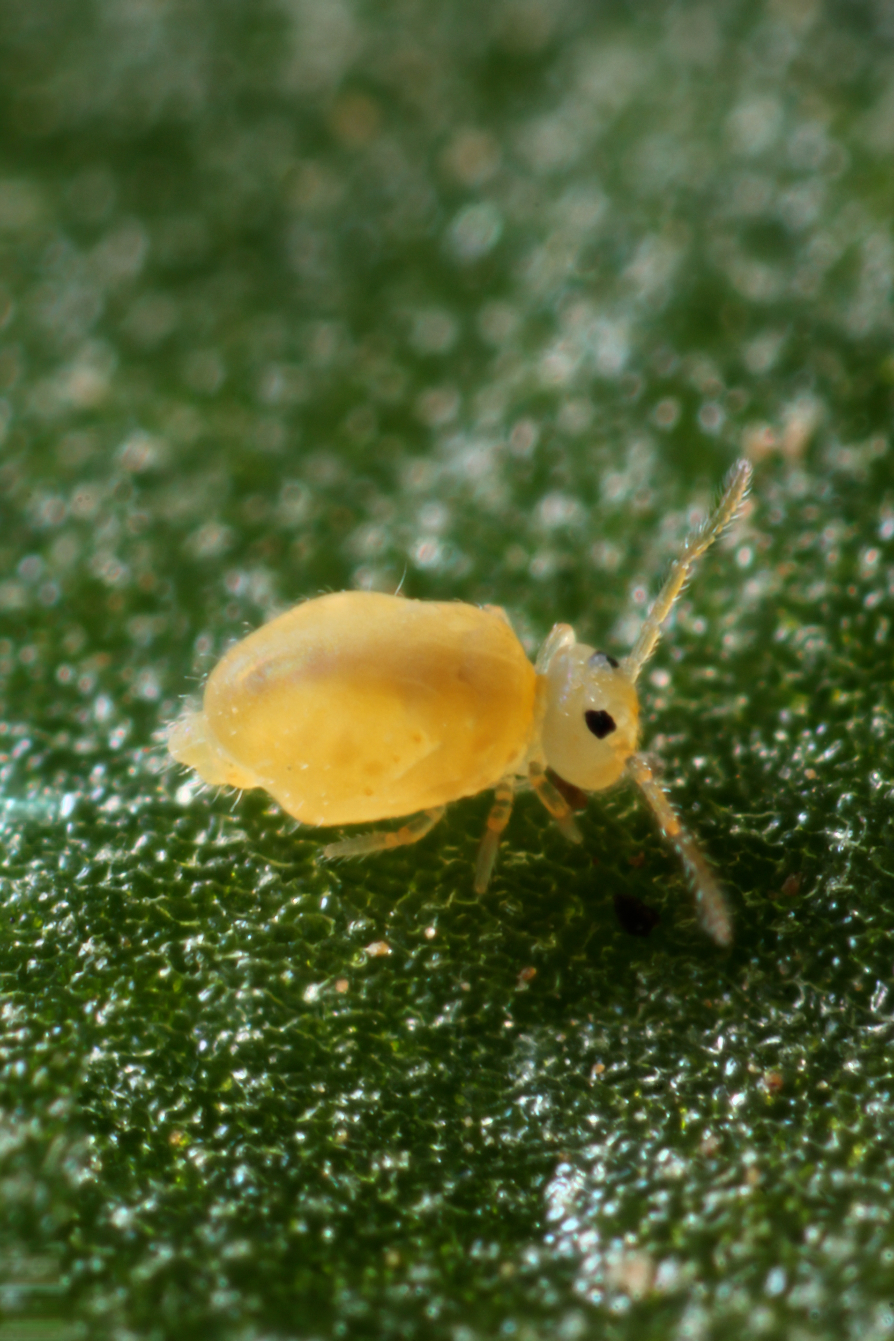 Bourletiella arvalis from England.